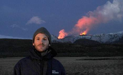 The photographer Erik Berglin